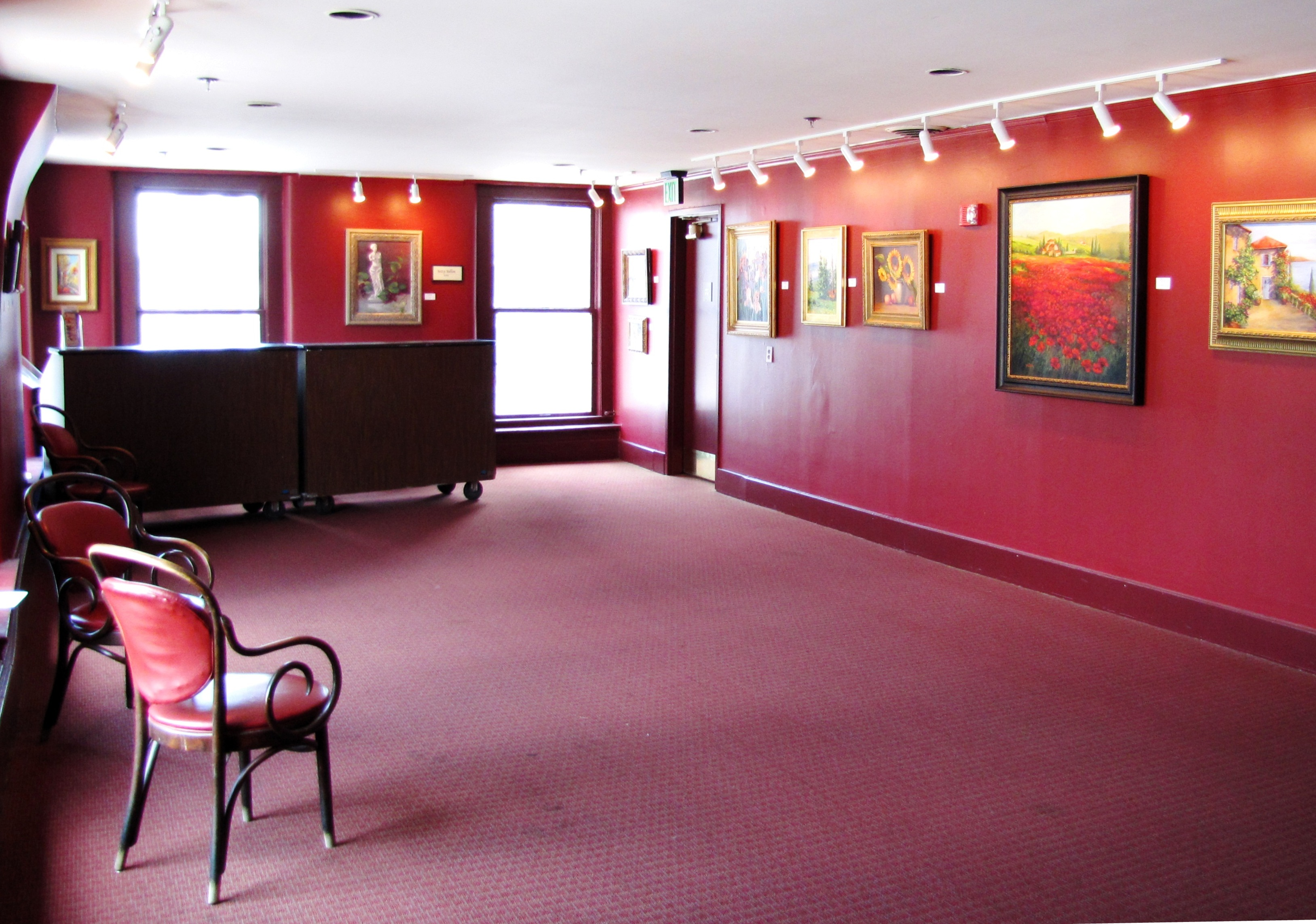 Second-floor northeast corner gallery of the Bijou Theatre in Knoxville, Tennessee, USA.